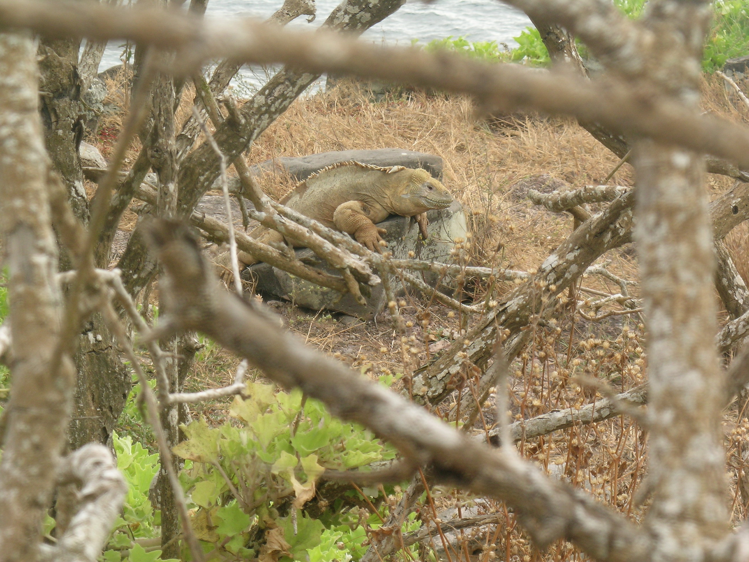 Santa Fe Land Iguana (Conolophus pallidus) on Santa Fe Island, Galapagos